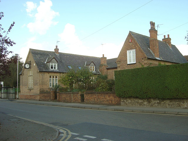 The Old School House The school was moved to a modern building some time ago and the old premises converted to dwellings. Nice to see a working external clock on a private building.